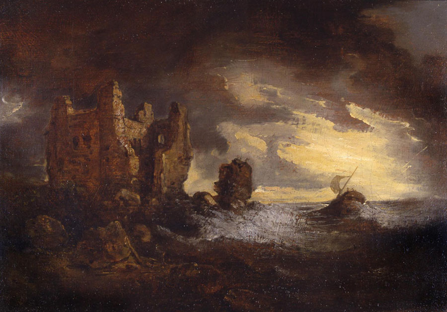 Sir George Howland Beaumont, Peele Castle in a Storm, 1806